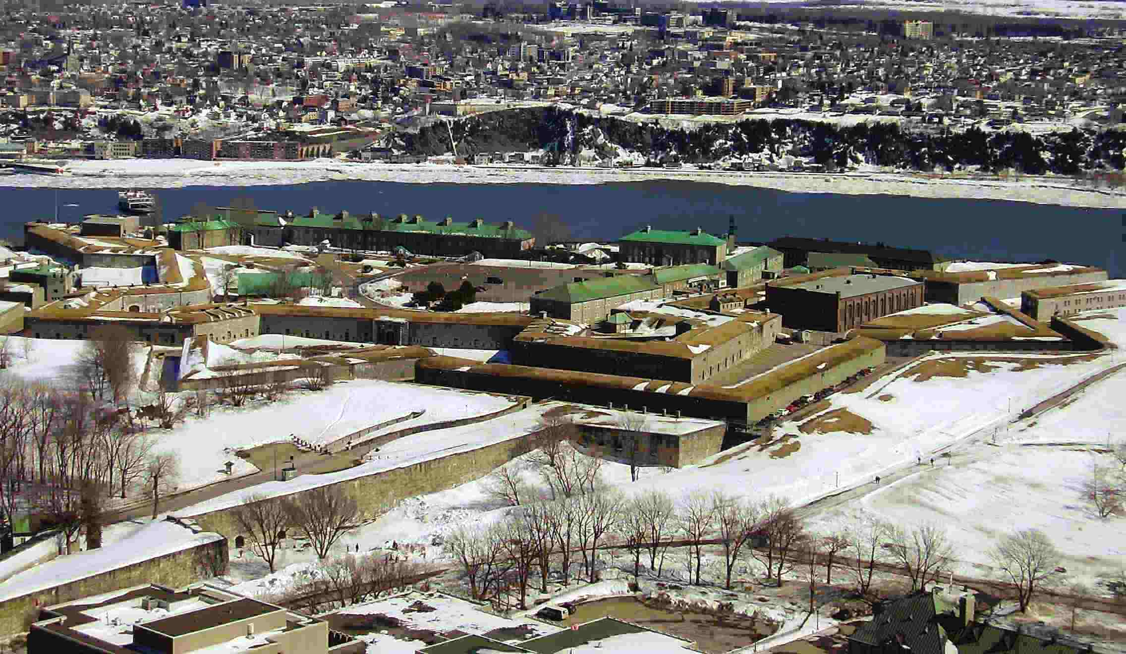 View of citadel in Quebec Canada